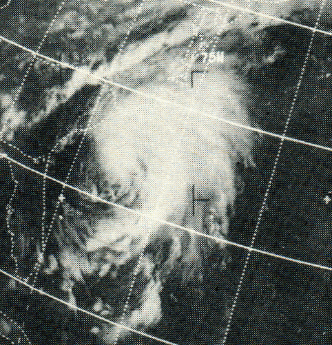 This ESSA 9 weather satellite image of Hurricane Gerda was taken on September 8, 1969 at 1825 UTC